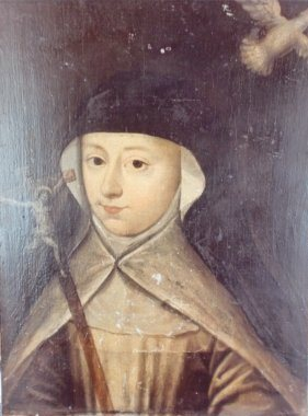 Sister Antoinette of Sainte Scholastique (Antoinette d'Orléans)